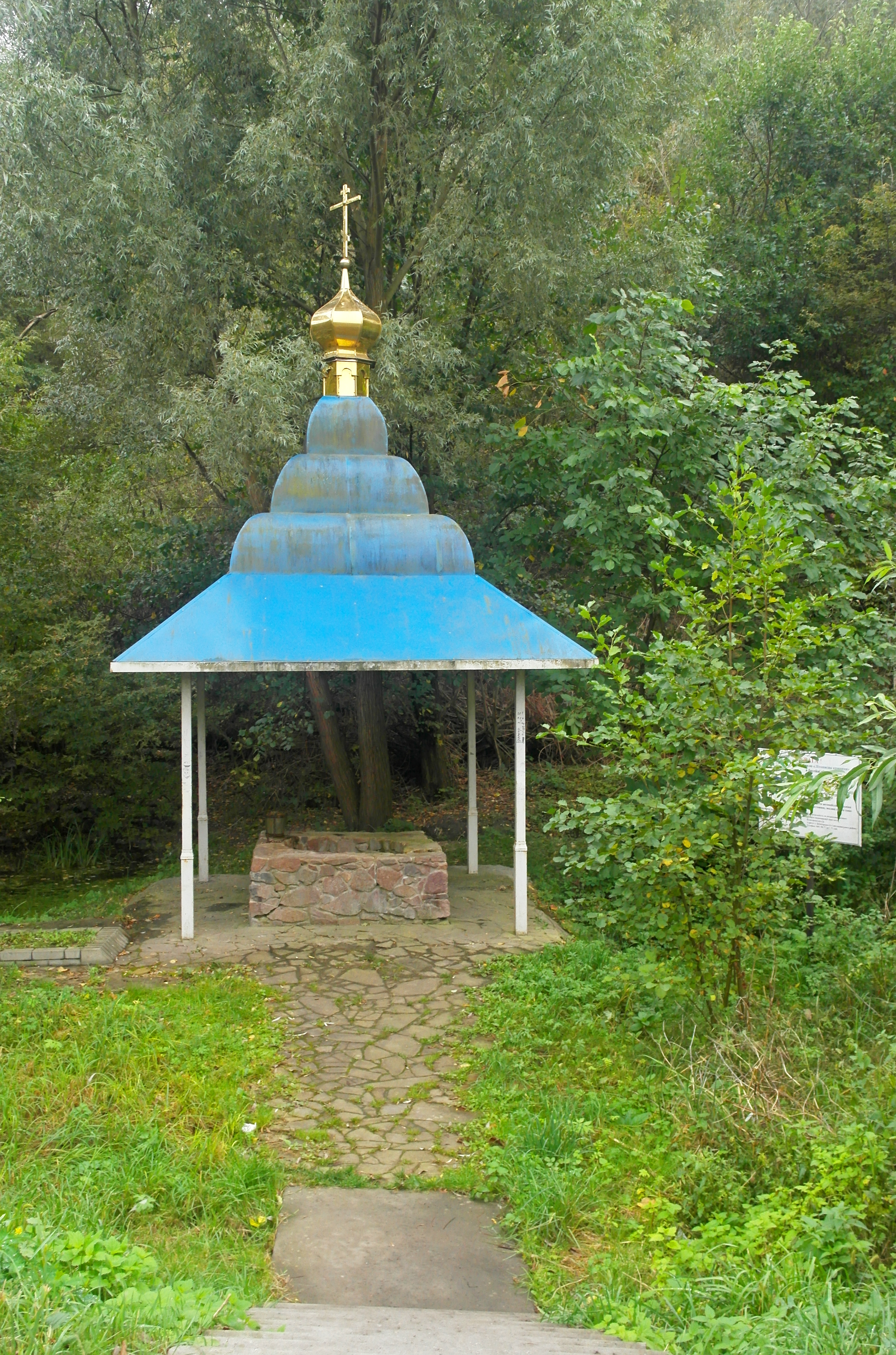 Літописний колодязь, Білогородка